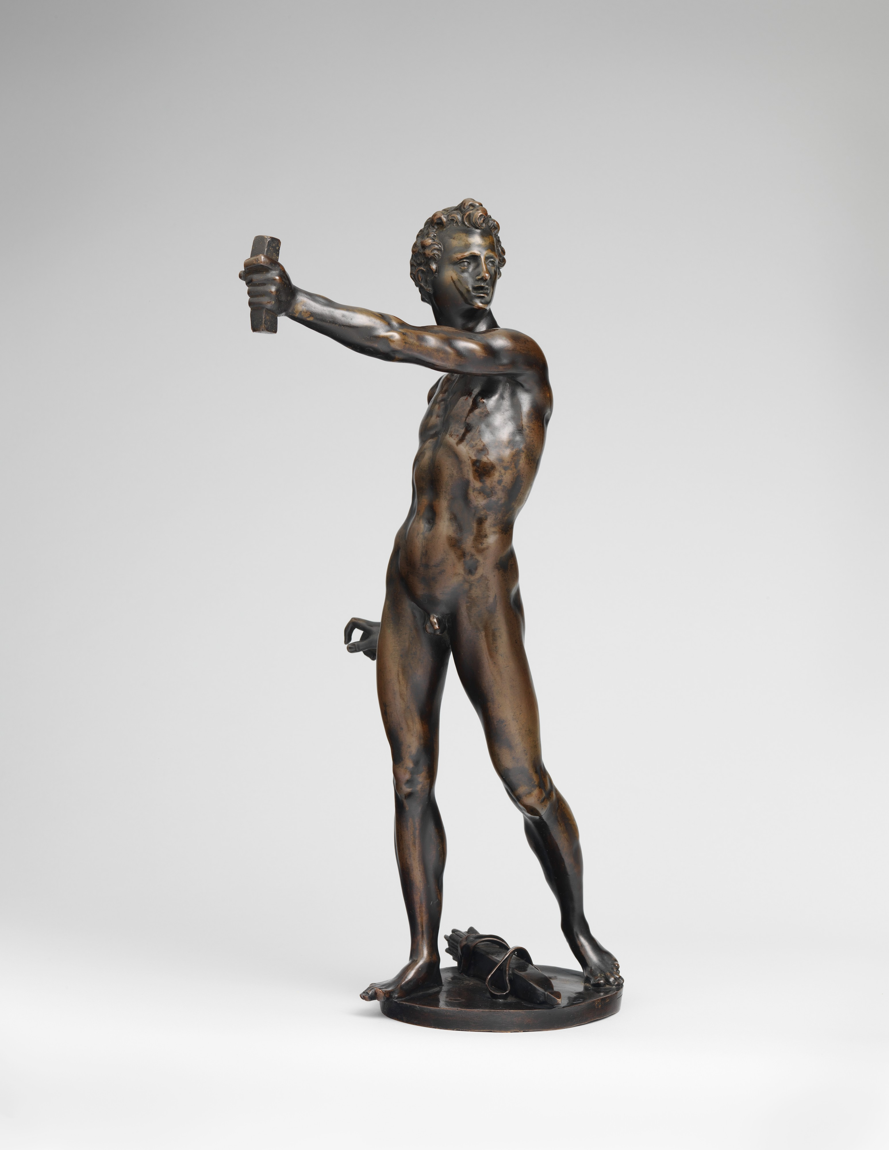 German, probably Augsburg; Statuette; Sculpture-Bronze